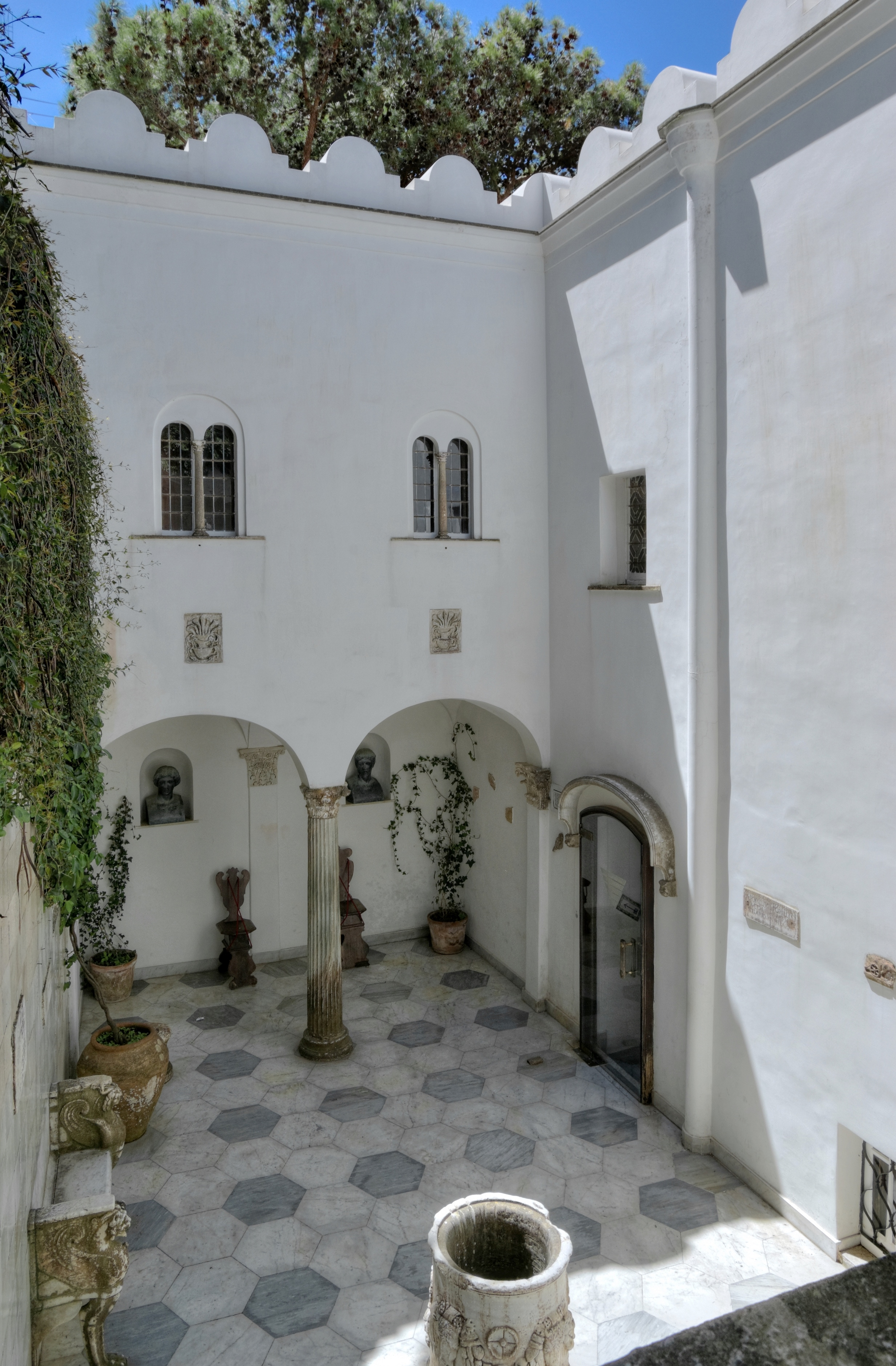 Anacapri, Villa San Michele